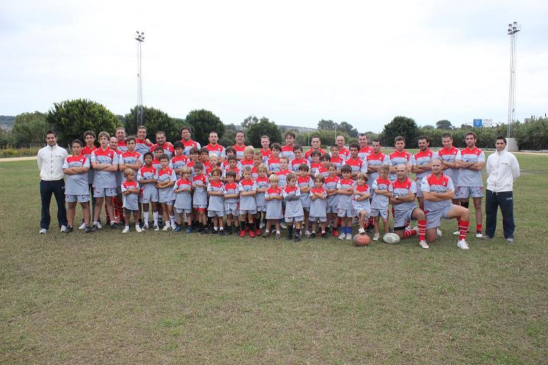 Squad Rugby del Estrecho